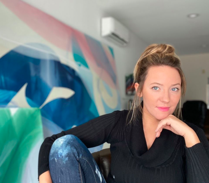 Marina Savashynskaya Dunbar photographed in 2020